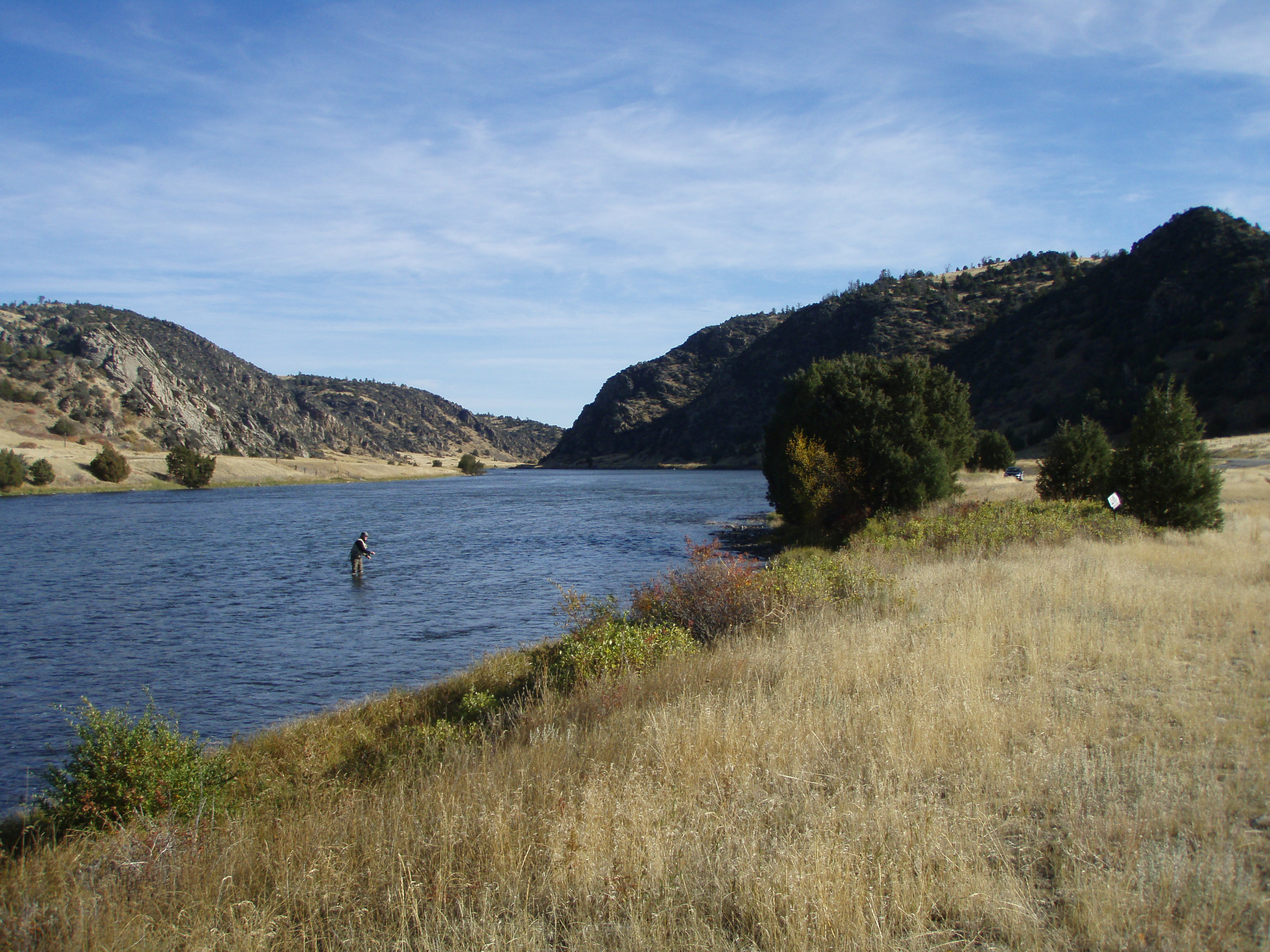 Lower Madison River Near Black's Ford Access, September, 2007